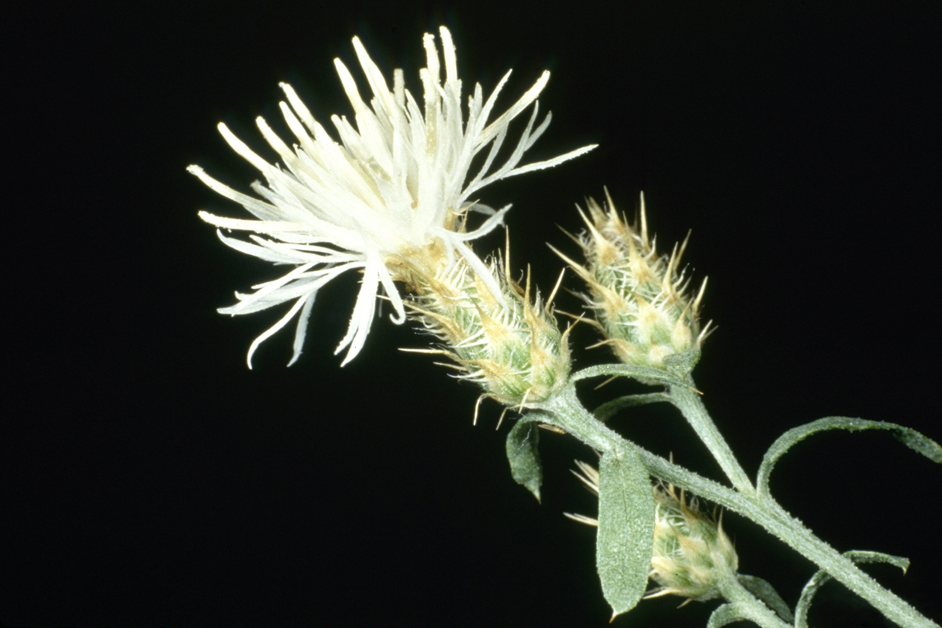 Centaurea diffusa Lam. (diffuse knapweed )